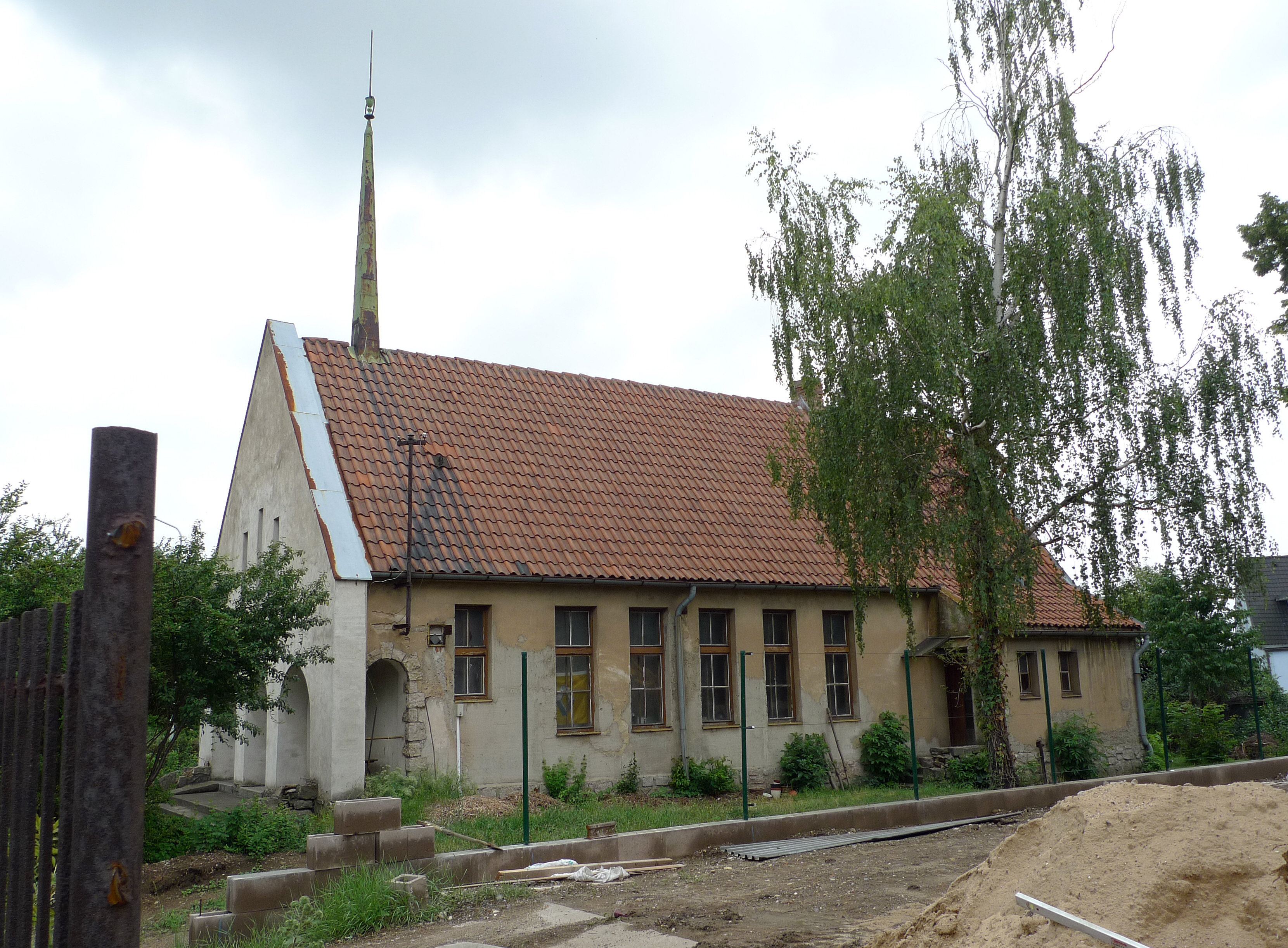 Jan Milíč Evangelic Church in Prague 10-Malešice, Czech Republic